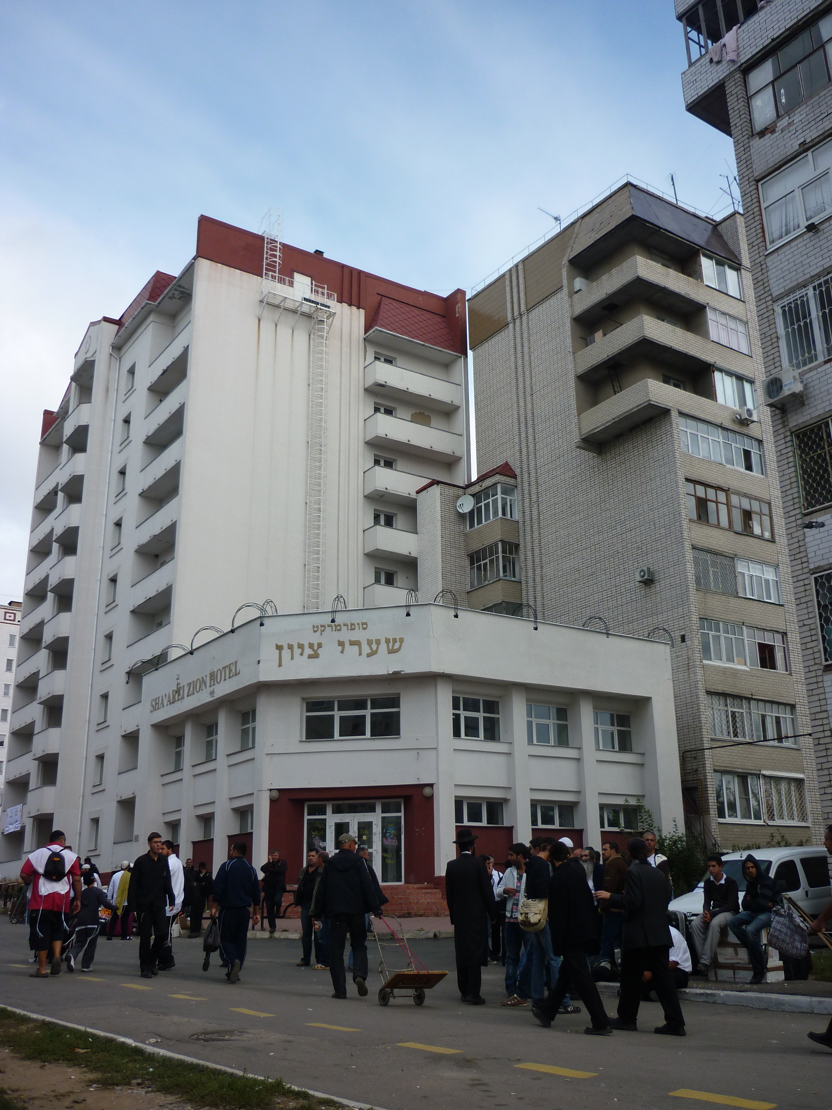 Hasidic peoples in Uman